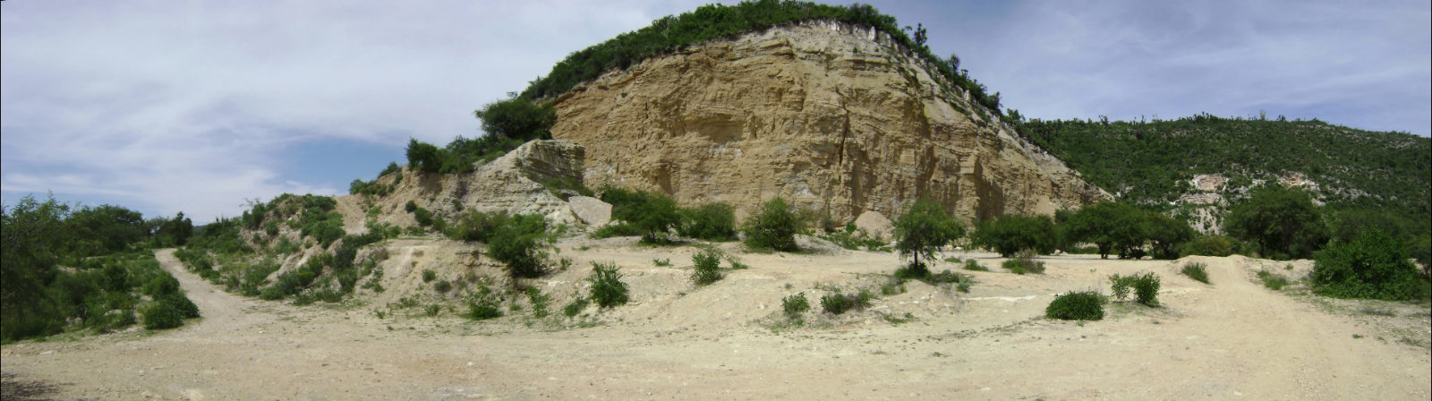 Mountain of 'Cantera de Mármol,' near Tehuacán, in southeastern Puebla state, Central México. Tehuacán-Cuicatlán Biosphere Reserve.